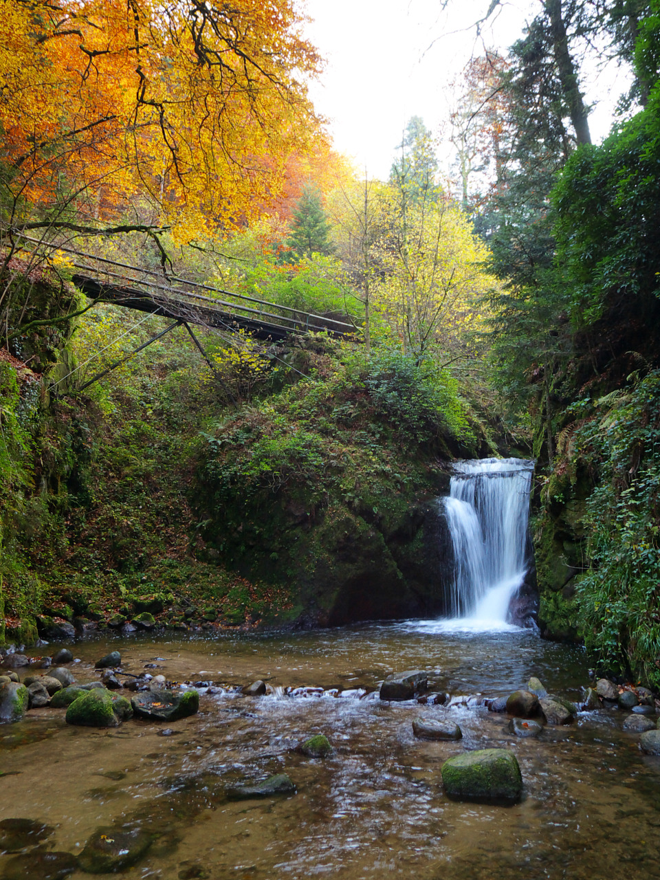 Geroldsauer Wasserfall, a waterfall near Baden-Baden, Germany.